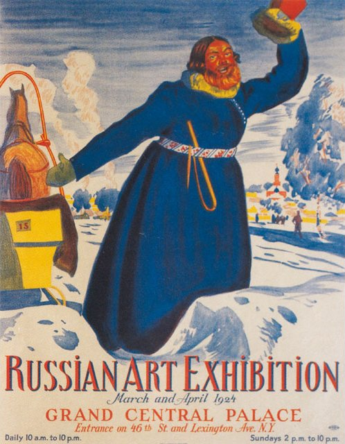 The Coachman by Boris Kustodiev, 1923 oil on canvas, 98.3 x 81.5 cm.